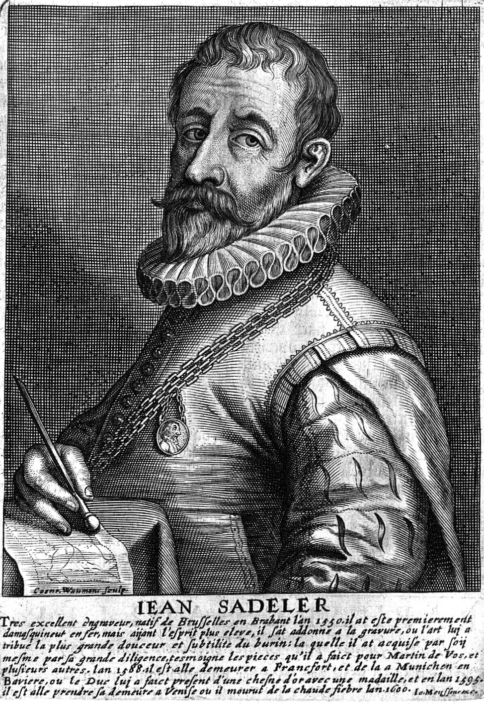 Het Gulden Cabinet, painter biographies by Cornelis de Bie for the Antwerp publisher-engraver Jan Meyssens, 1662. Jan Sadelar p 463